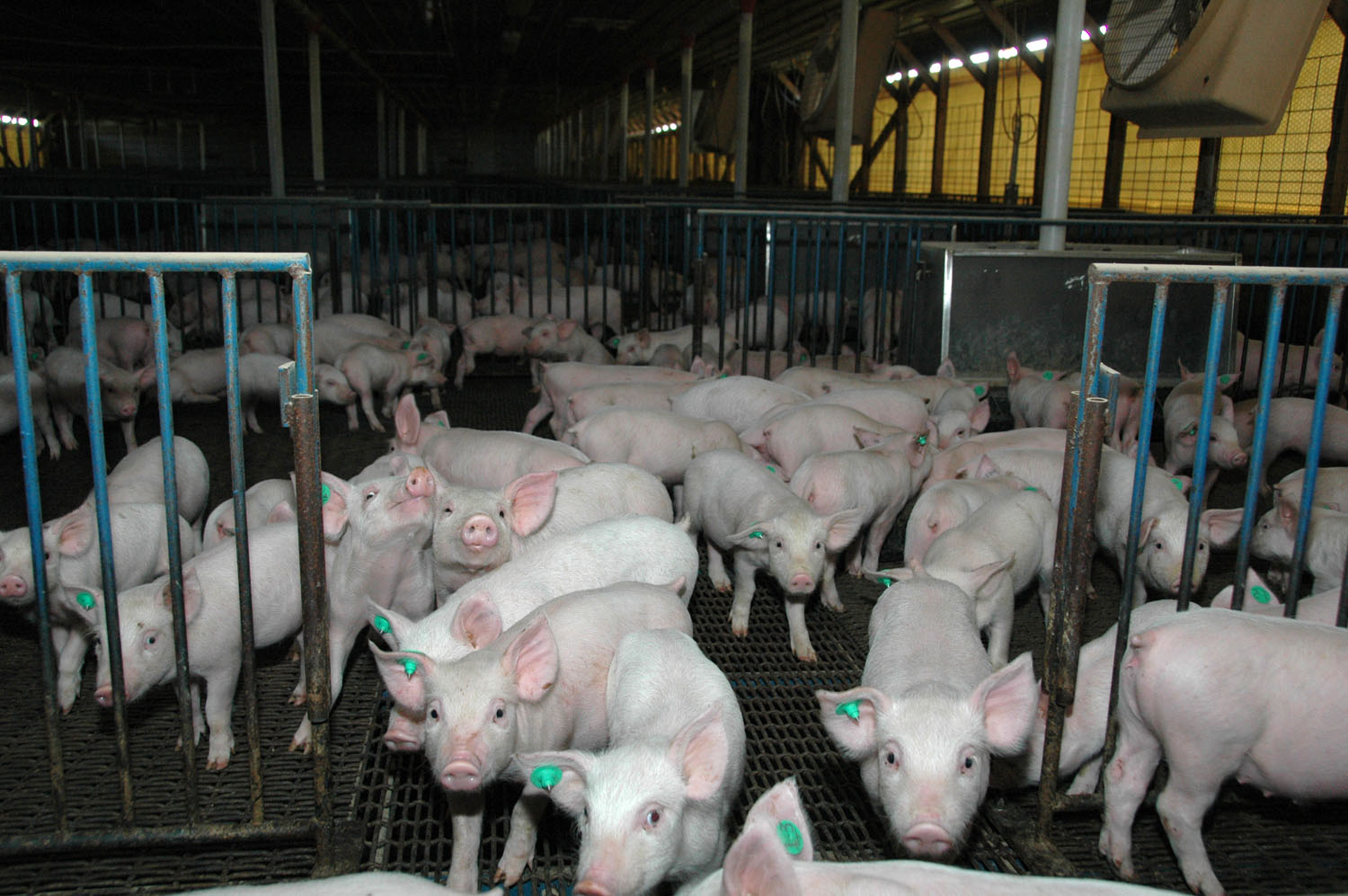 Piglets in a pigpen